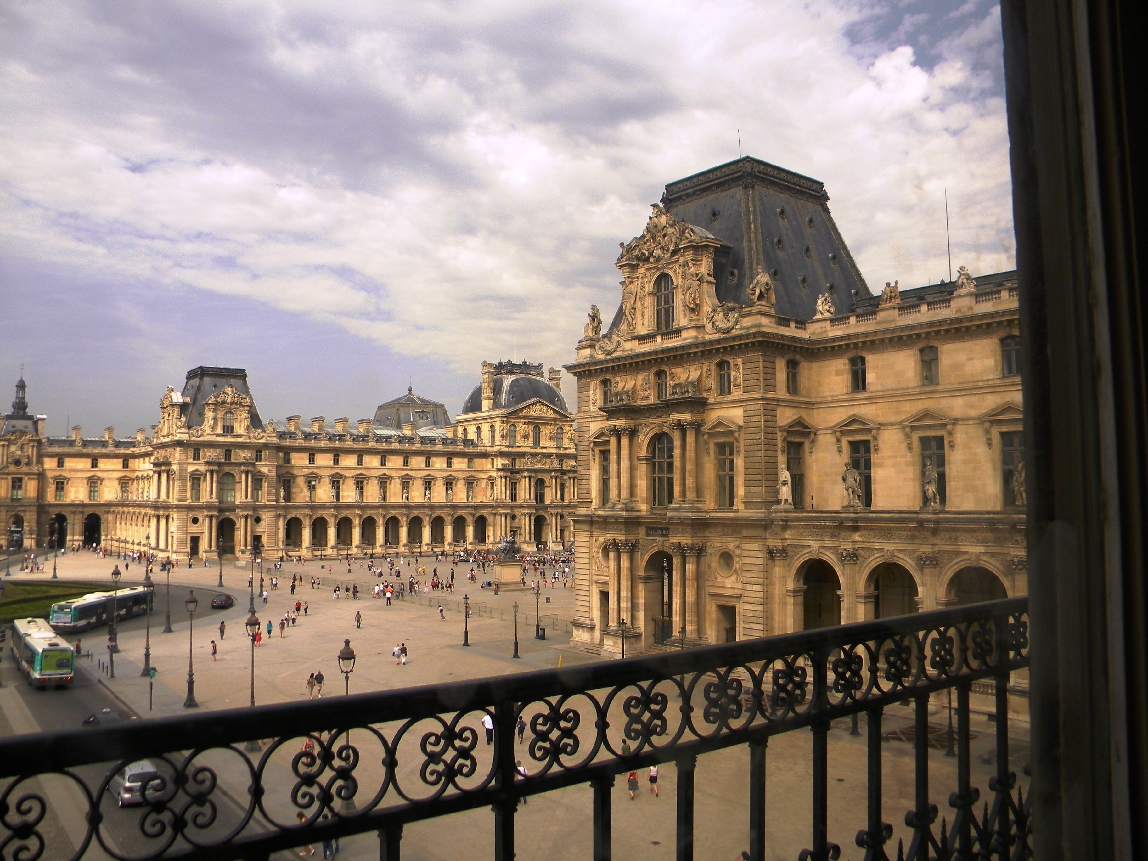 Palais du Louvre, IVe arrondissement, Paris, France.